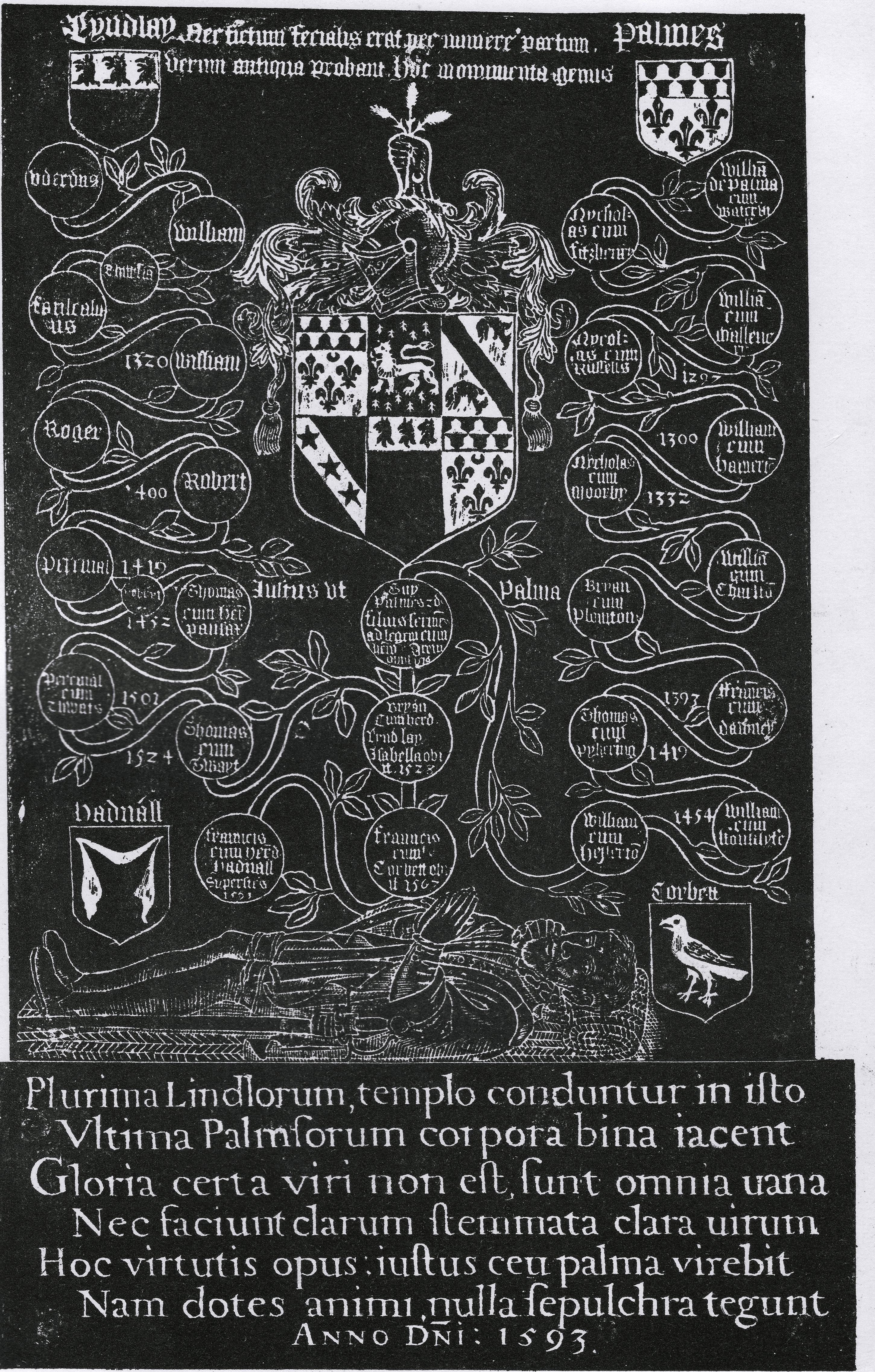 Monumental brass to Francis Palmes (d.1593), Otley Church, Yorkshire. Brass rubbing.